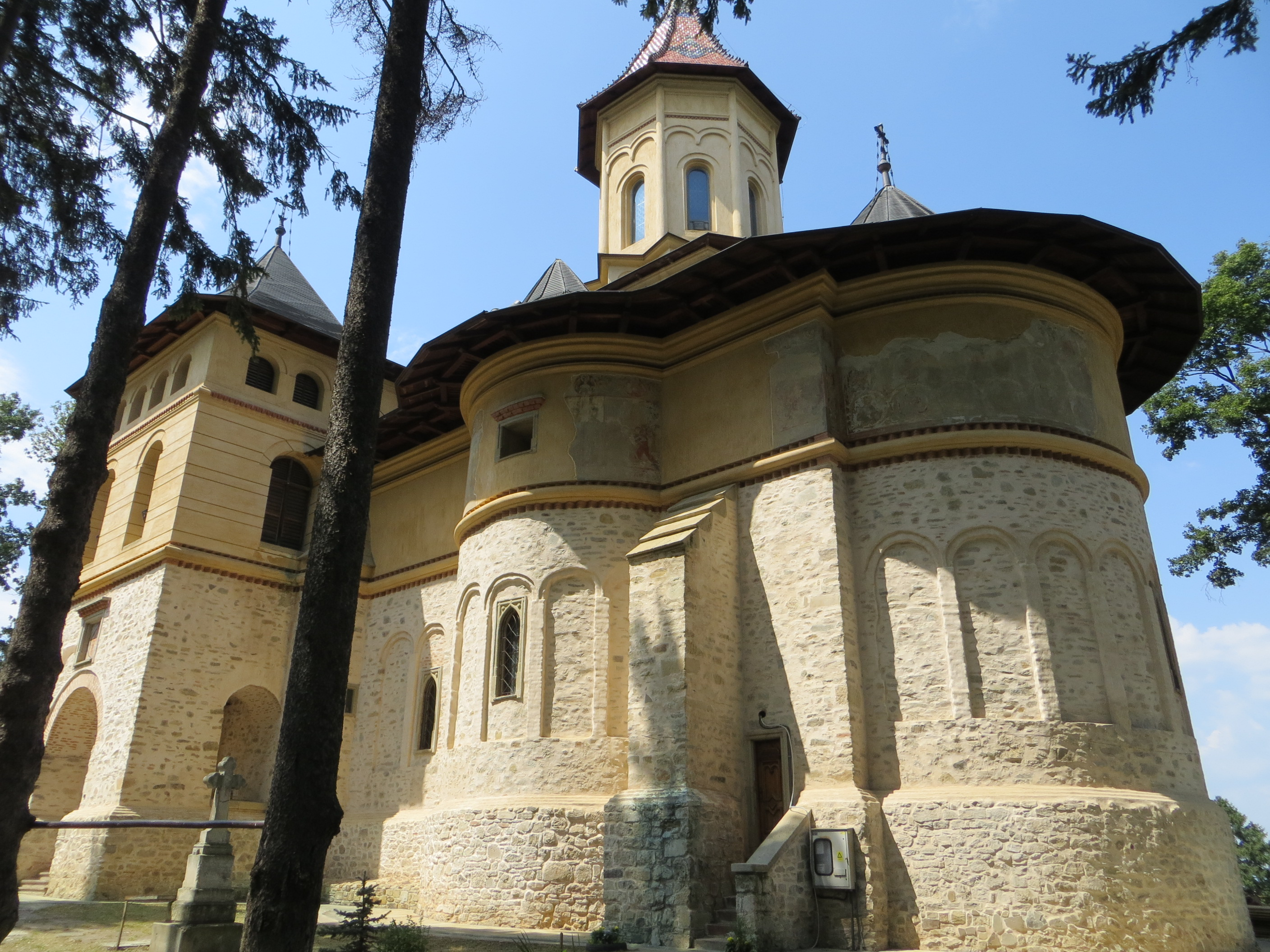 Mirăuţi Church in Suceava.